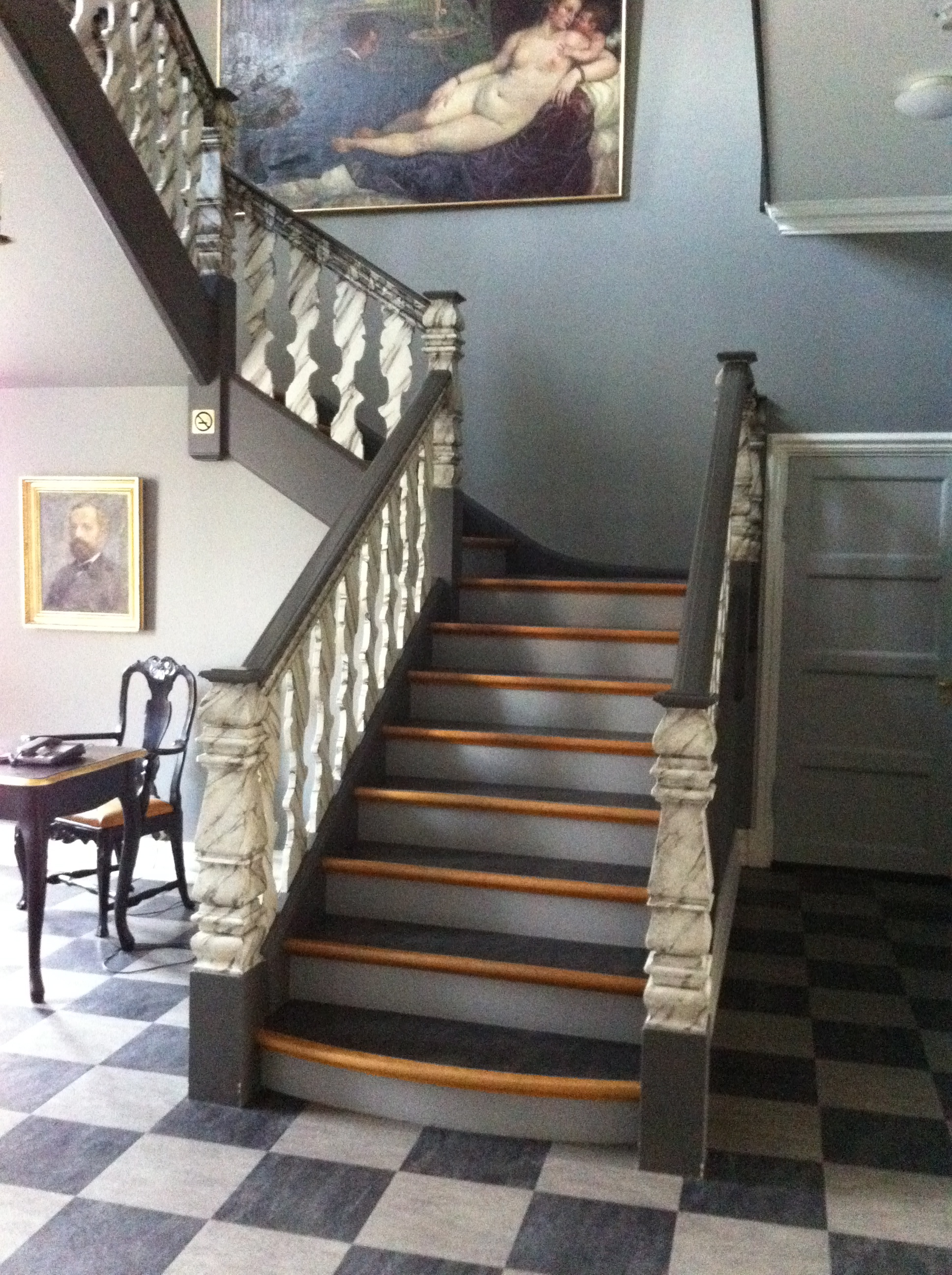 Lerchendal gård (=manor), Trondheim, Norway. The main building was erected in 1762 (moved here in 1773). The stairs were designed and built during a large restoration project in the sixties